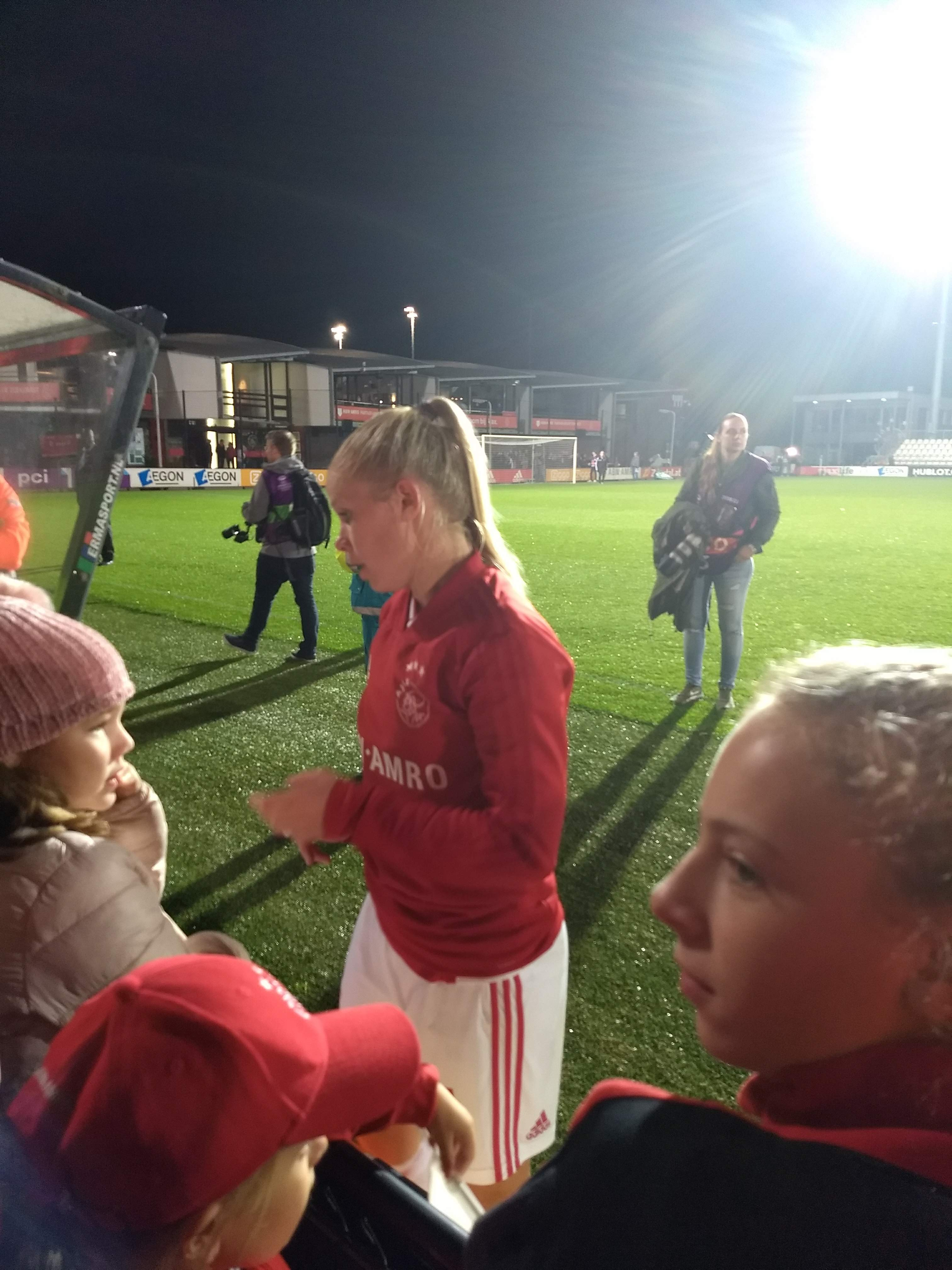 Na de Champions League wedstrijd tegen Olympique Lyonnais - 2018-10-17